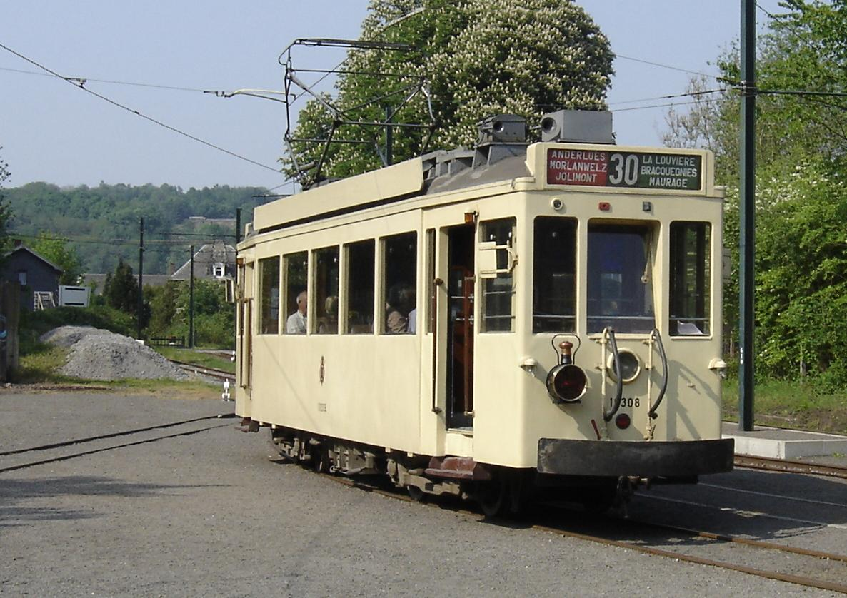 ASVi museum - electrical tramway 10308 "Standard Métallique" built by Baume et Marpent (1942)